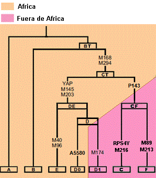 Spread of haplogroup DE and Y chromosome phylogenetic tree